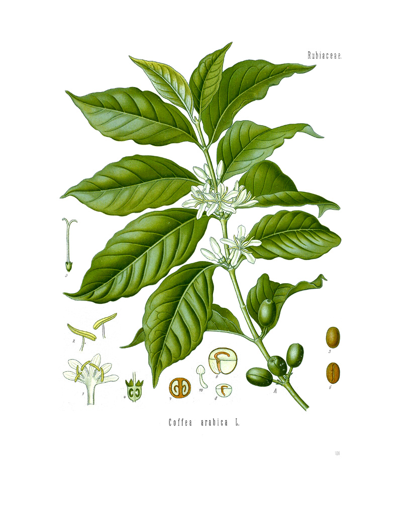 Illustration of COFFEA arabica L. 106 (Coffea arabica L., Arabian coffee) Köhler's Medizinal-Pflanzen in naturgetreuen Abbildungen mit kurz erläuterndem Texte : Atlas zur Pharmacopoea germanica